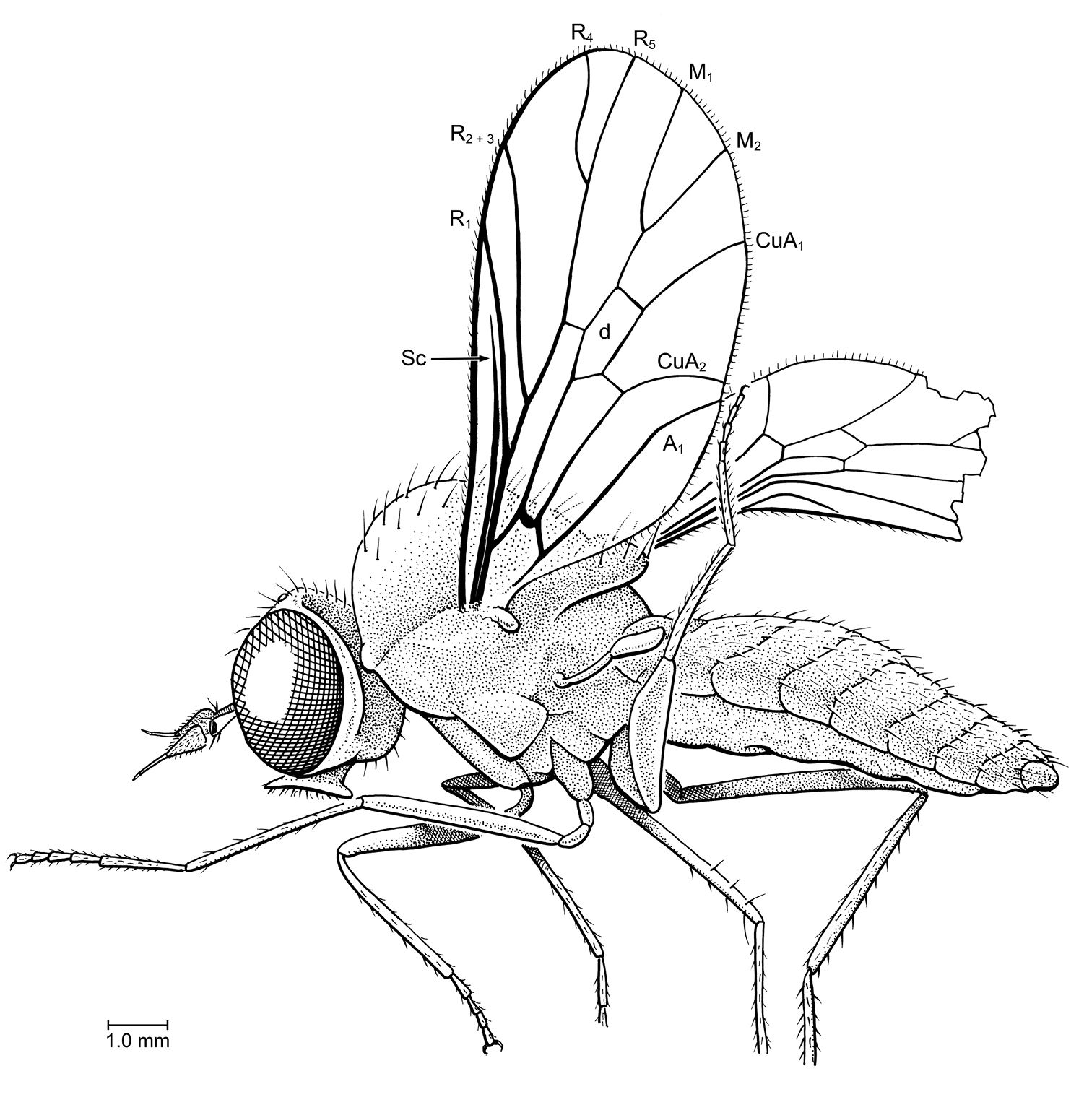 Hilarimorphites burmanica in Burmese amber, as preserved. Holotype, AMNH 098.